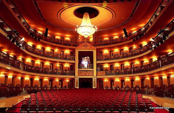 theatre